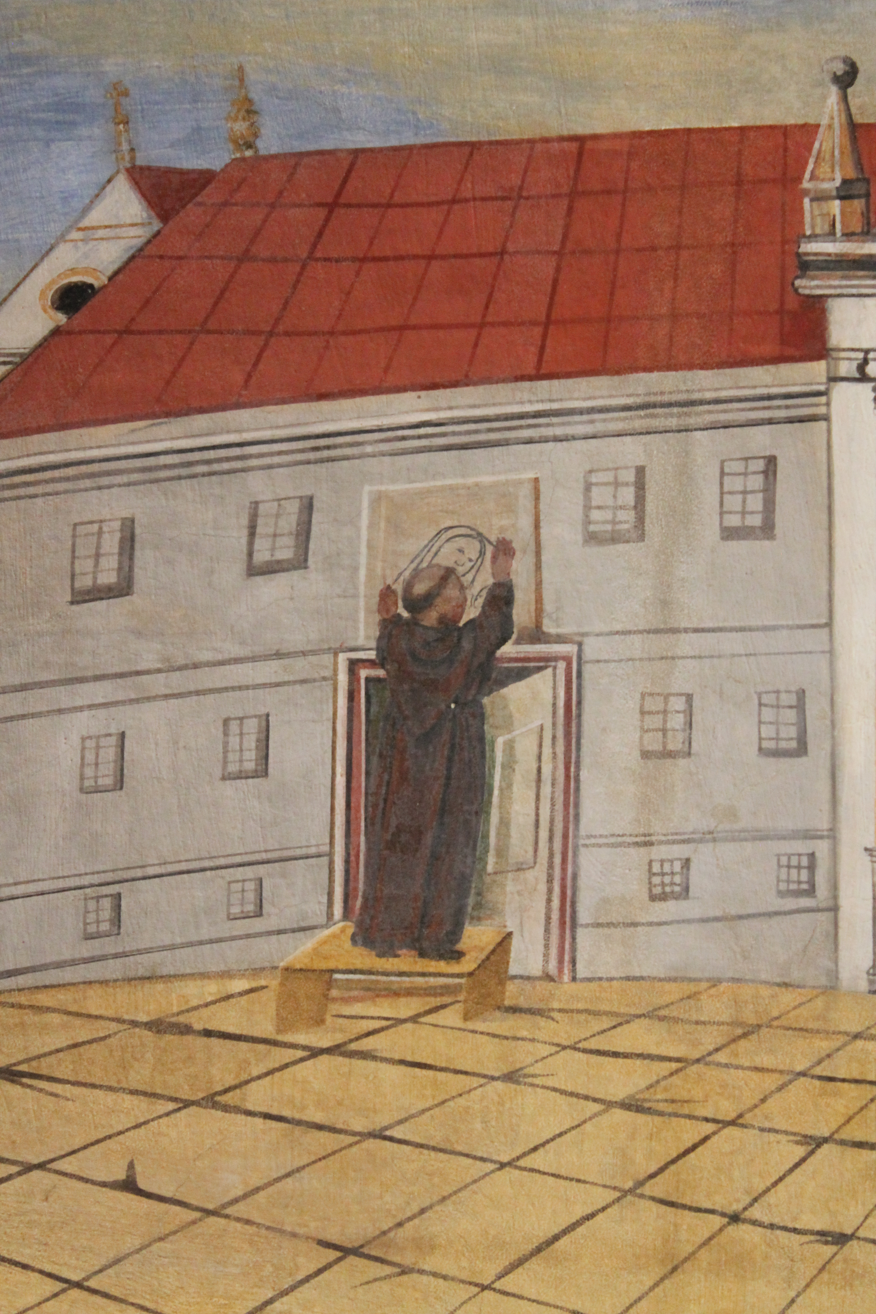 Carmelites, Karmelicka 19 Cracow